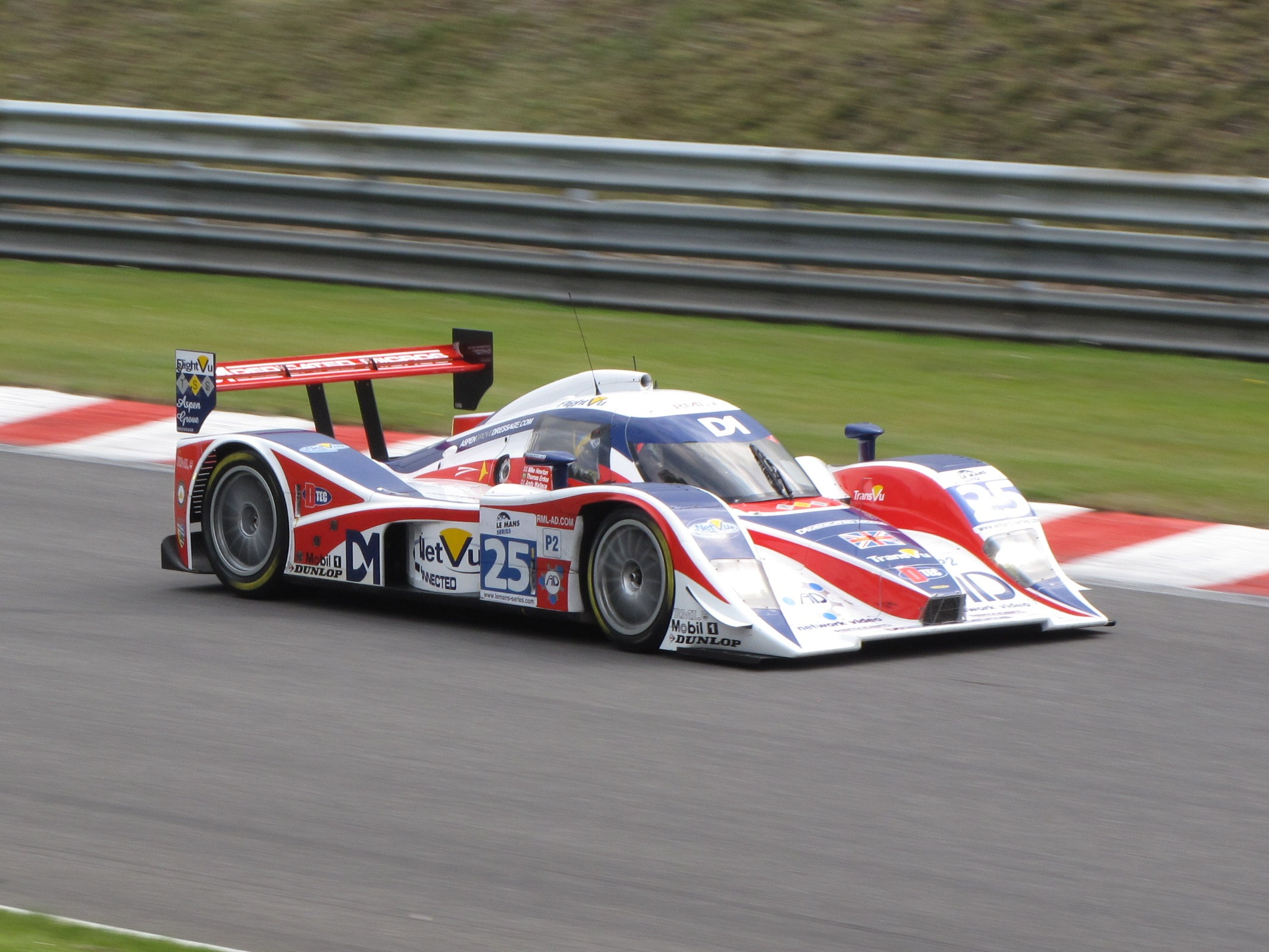 Thomas Erdos driving a Lola B08/80 at 1000 km of Spa 2010.